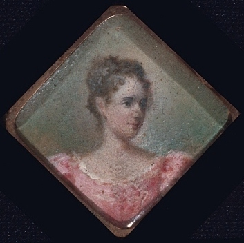 Josephine Mount